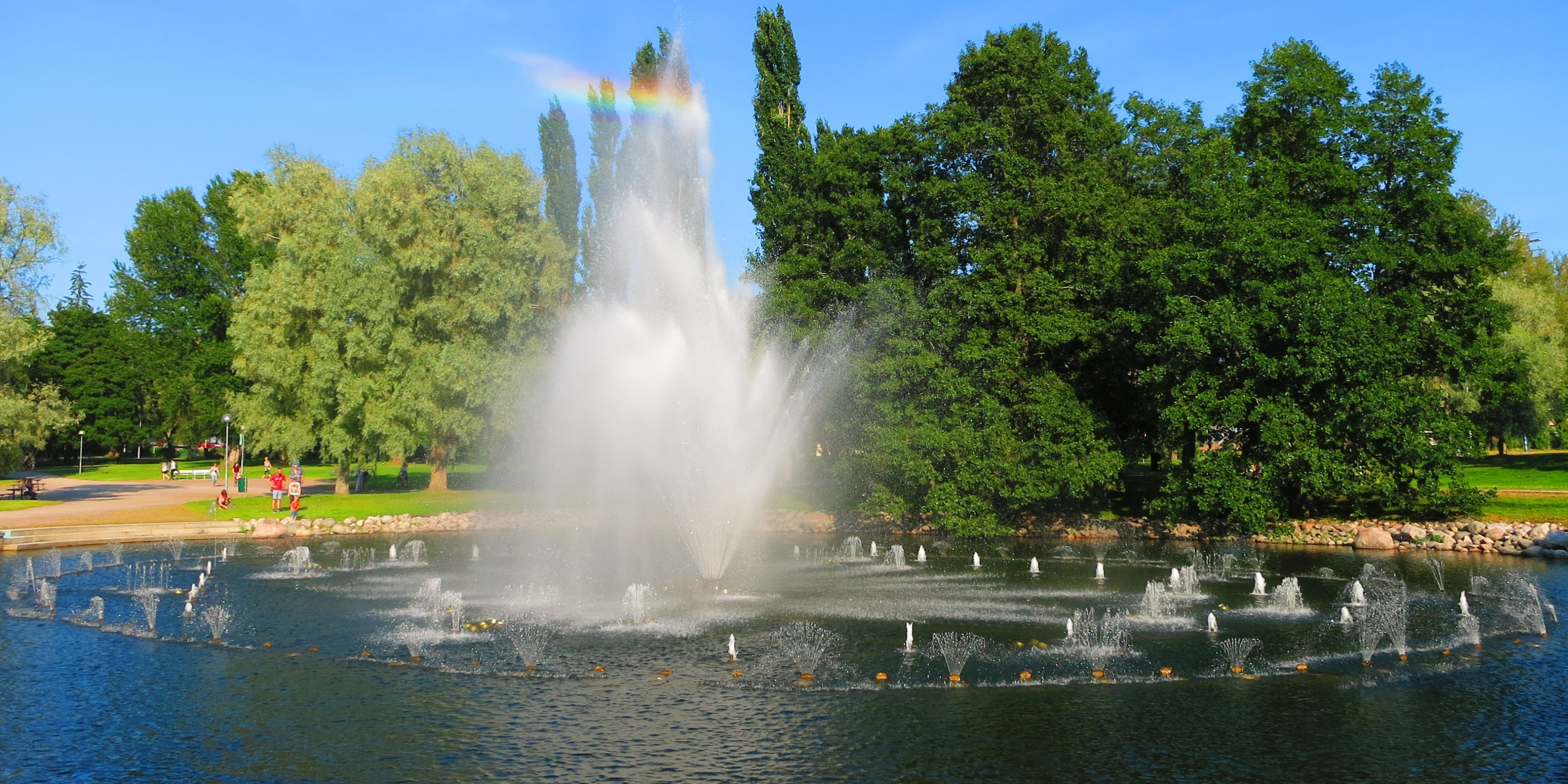 Fountains with music and light effects in Pikku-Vesijärvi Park. View from west (Lahti, Finland)